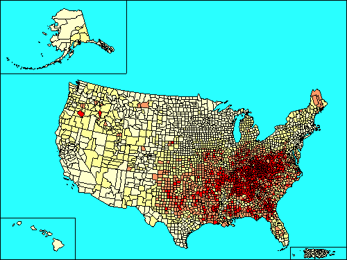 Map showing those of Colonial American ancestry. Map showing those of Colonial American ancestry.